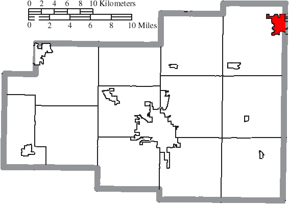 Map of the municipal and township boundaries of Allen County, Ohio, United States, as of the 2000 census, with the location of the village of Bluffton highlighted. Township borders are shown only in unincorporated areas in order to differentiate incorporated and unincorporated areas more clearly.